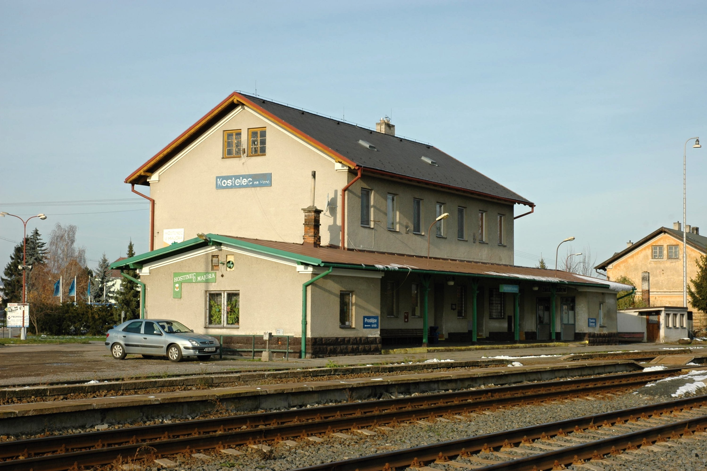 Kostelec na Hané railway station, the Czech Republic